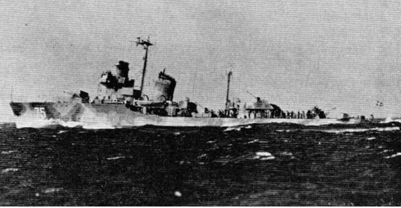 The Swedish frigate HMS Munin (1942).